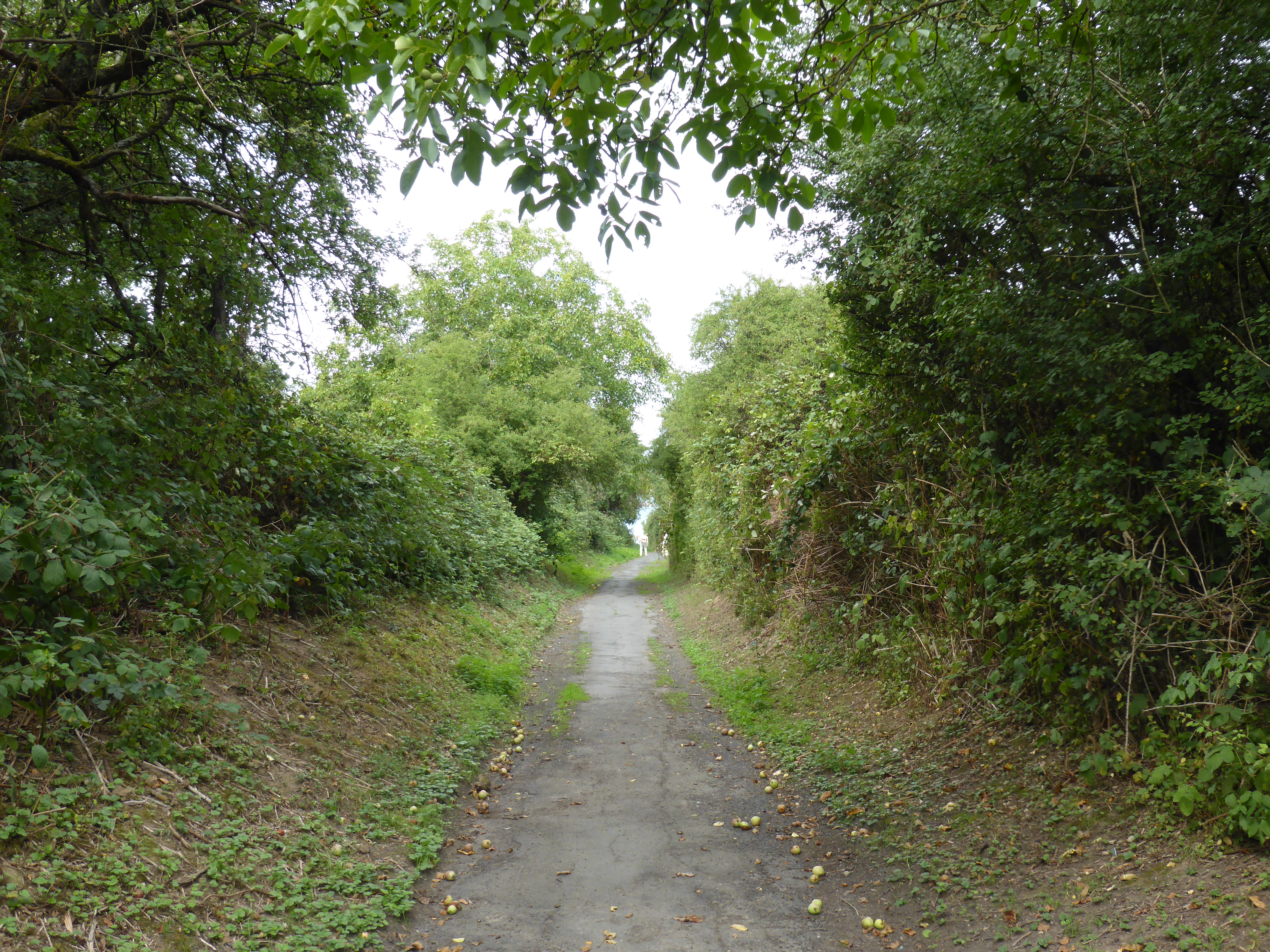 Sunken lane Steinstraße following the former Roman road Saalburgstraße near Kalbach-Riedberg